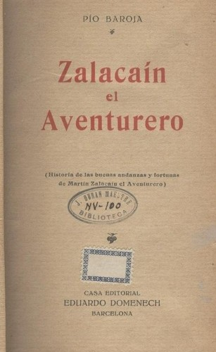 Zalacain el aventurero cover page 1908